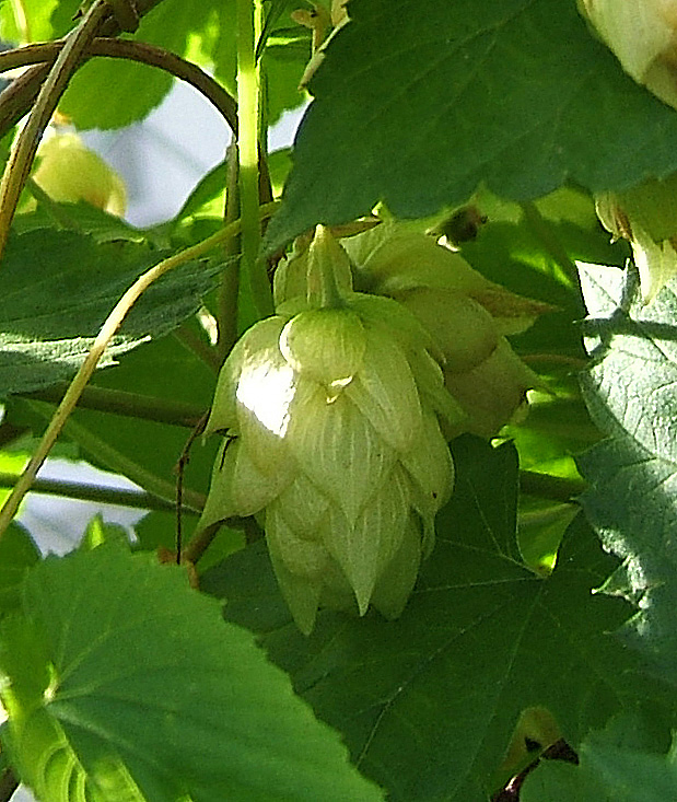 Hop